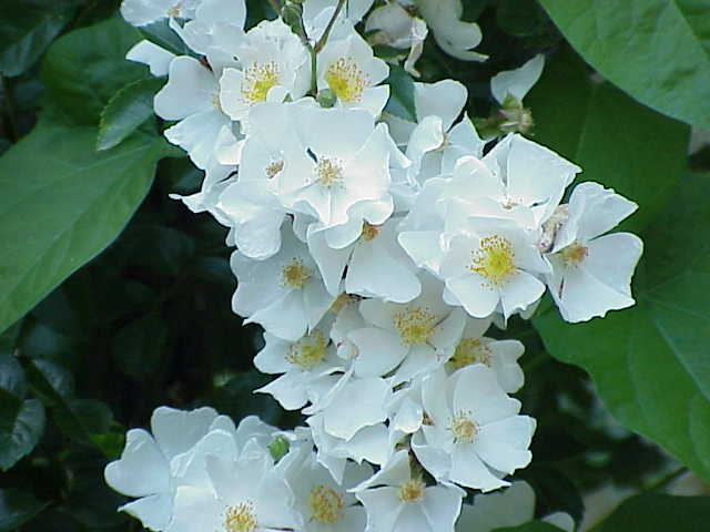 Species: Rosa wichuraiana Family: Rosaceae Image No. 1